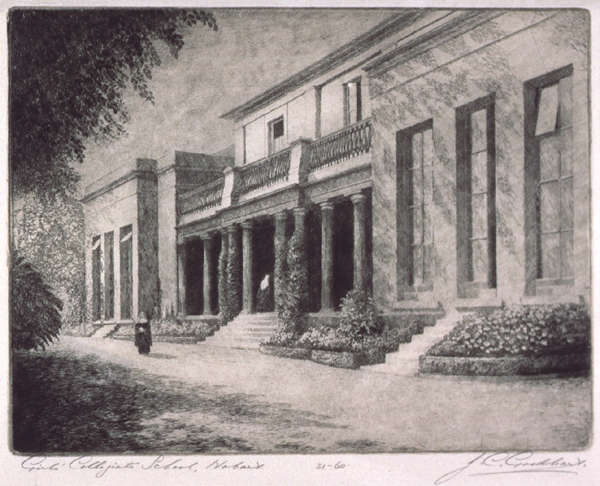 Buildings of St Michael's Collegiate School in 1920's.